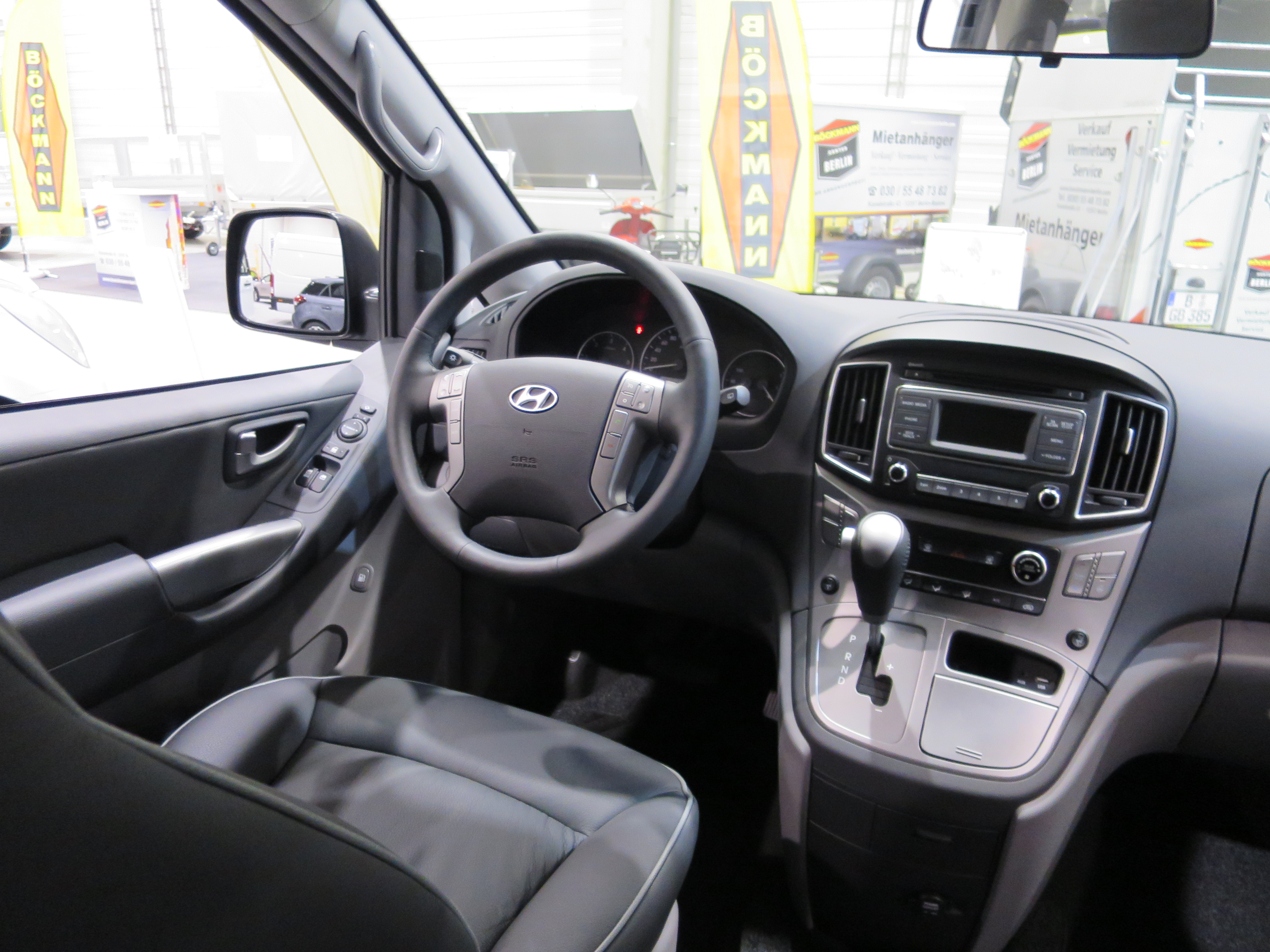 Hyundai H-1.